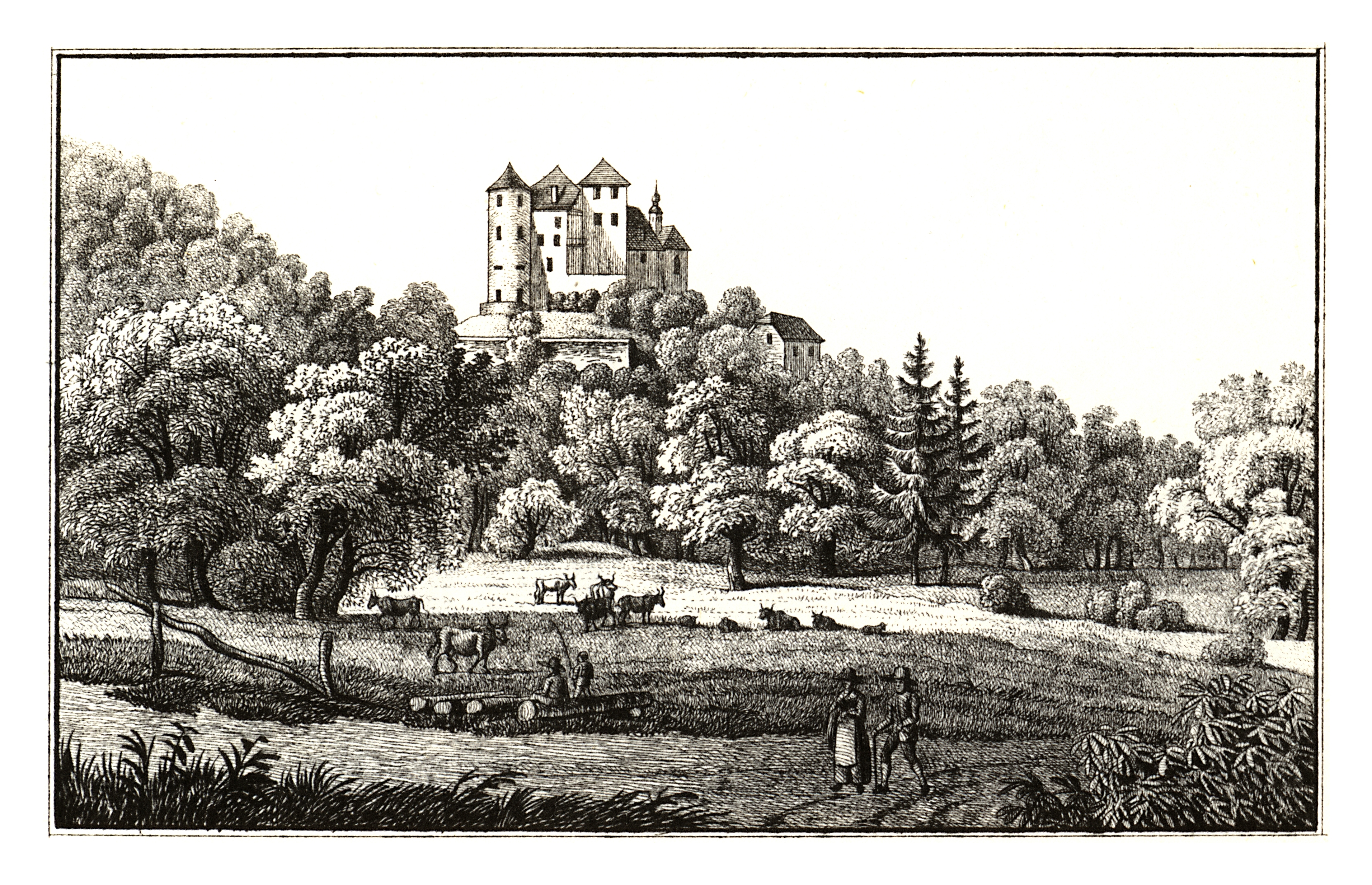 J. F. Kaiser - lithographirte Ansichten der Steyermärkischen Städte, Märkte und Schlösser, Graz 1824-1833 Joseph Franz Kaiser (1786–1859) Alternative names J. F. KaiserDescriptionAustrian printer and editorDate of birth/death 11 March 1786 19 September 1859Location of birth/death Graz (Styria) GrazAuthority control : Q1499963 VIAF: 30629353 ISNI: 0000 0000 3083 0153 LCCN: n87141671 GND: 129880159 NLP: A24960305 WorldCat creator QS:P170,Q1499963 . Scanprojekt Community Projektbudget 2012 This scan or this PDF-file was created within the GLAM-project Bookscanning, supported by Wikimedia Germany and Wikimedia Austria as a part of the community-project to capture books, documents and pictures which are not eligible to copyright or for which the copyright has expired. This document describes or depicts an object which is located in Austria today. Send requests for uncompressed scans to Hubertl. This work is in the public domain in its country of origin and other countries and areas where the copyright term is the author's life plus 100 years or fewer. You must also include a United States public domain tag to indicate why this work is in the public domain in the United States. This file has been identified as being free of known restrictions under copyright law, including all related and neighboring rights.